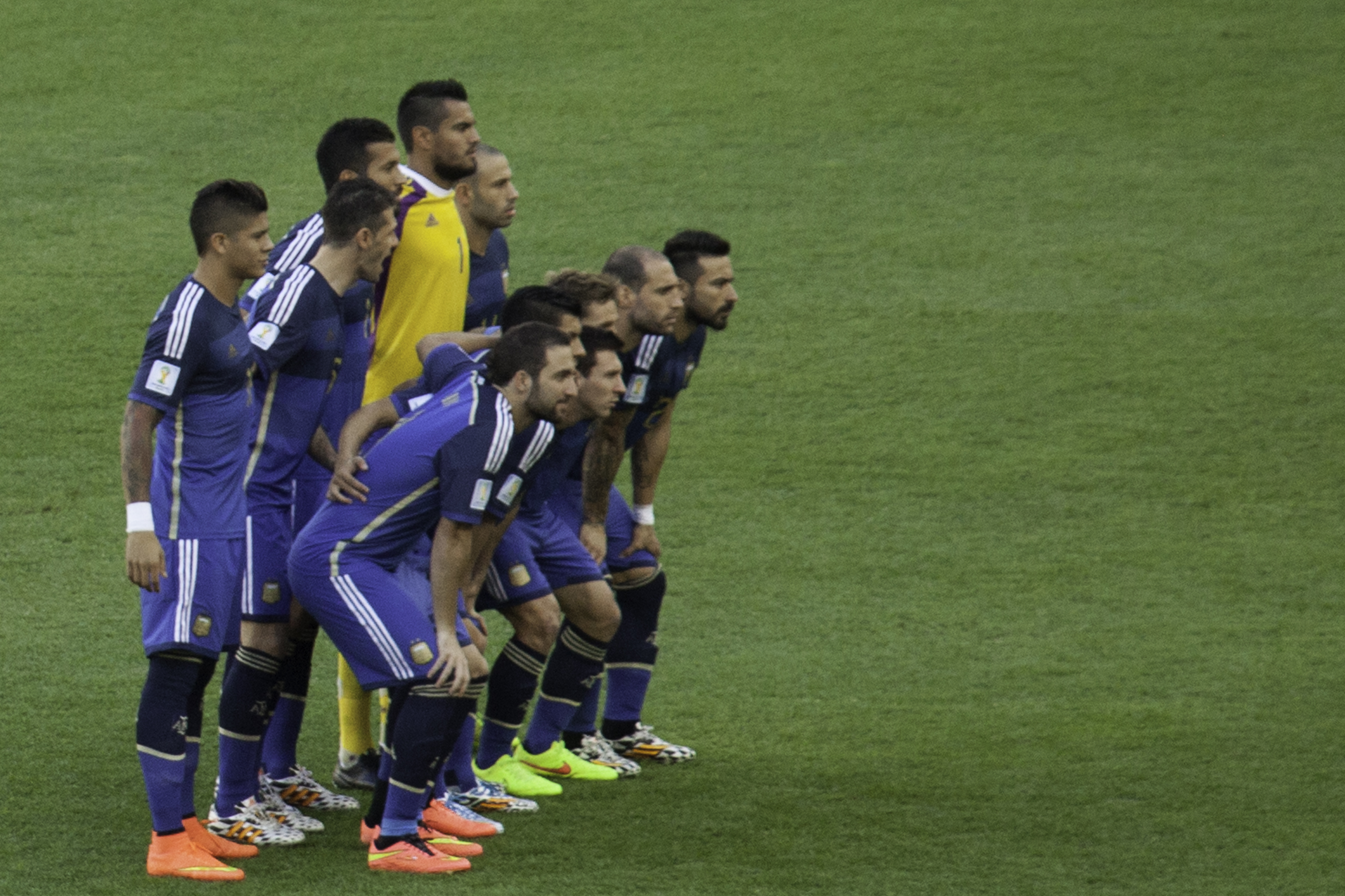 ARGENTINA : Sergio Romero - Pablo Zabaleta, Martín Demichelis, Ezequiel Garay, Marcos Rojo - Enzo Pérez, Lucas Biglia, Javier Mascherano - Lionel Messi (cap), Gonzalo Higuaín, Ezequiel Lavezzi . T: Alejandro Sabella. Referee : Nicola Rizzoli (Italy).